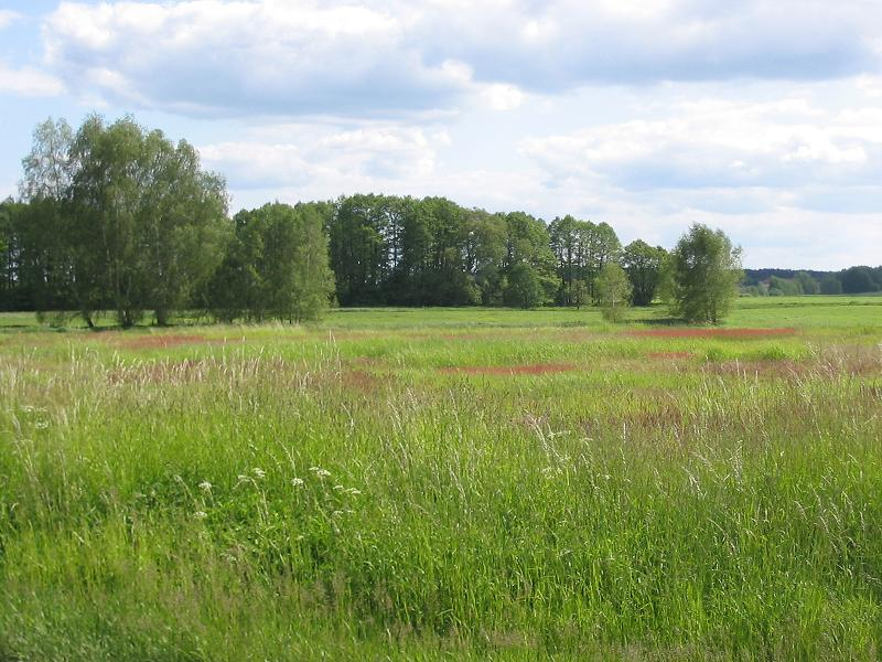 Meadow nearby Lüsse. The village Lüsse is an incorporated part of the town Belzig in Brandenburg, Germany.